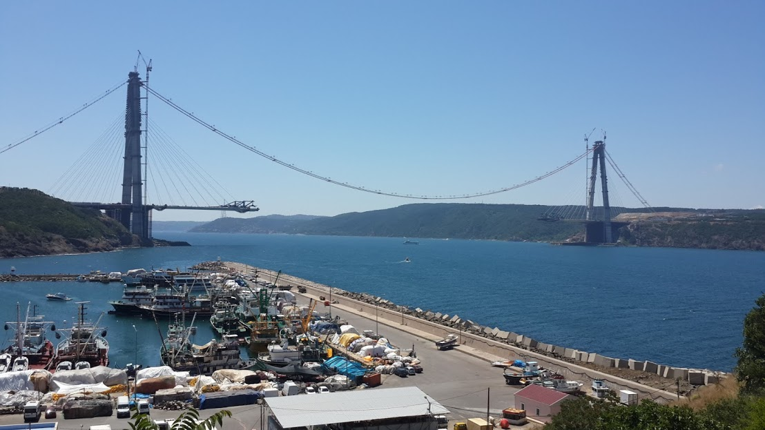 3. köprü